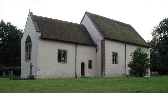 St Margaret of Antioch, Bygrave, Herts